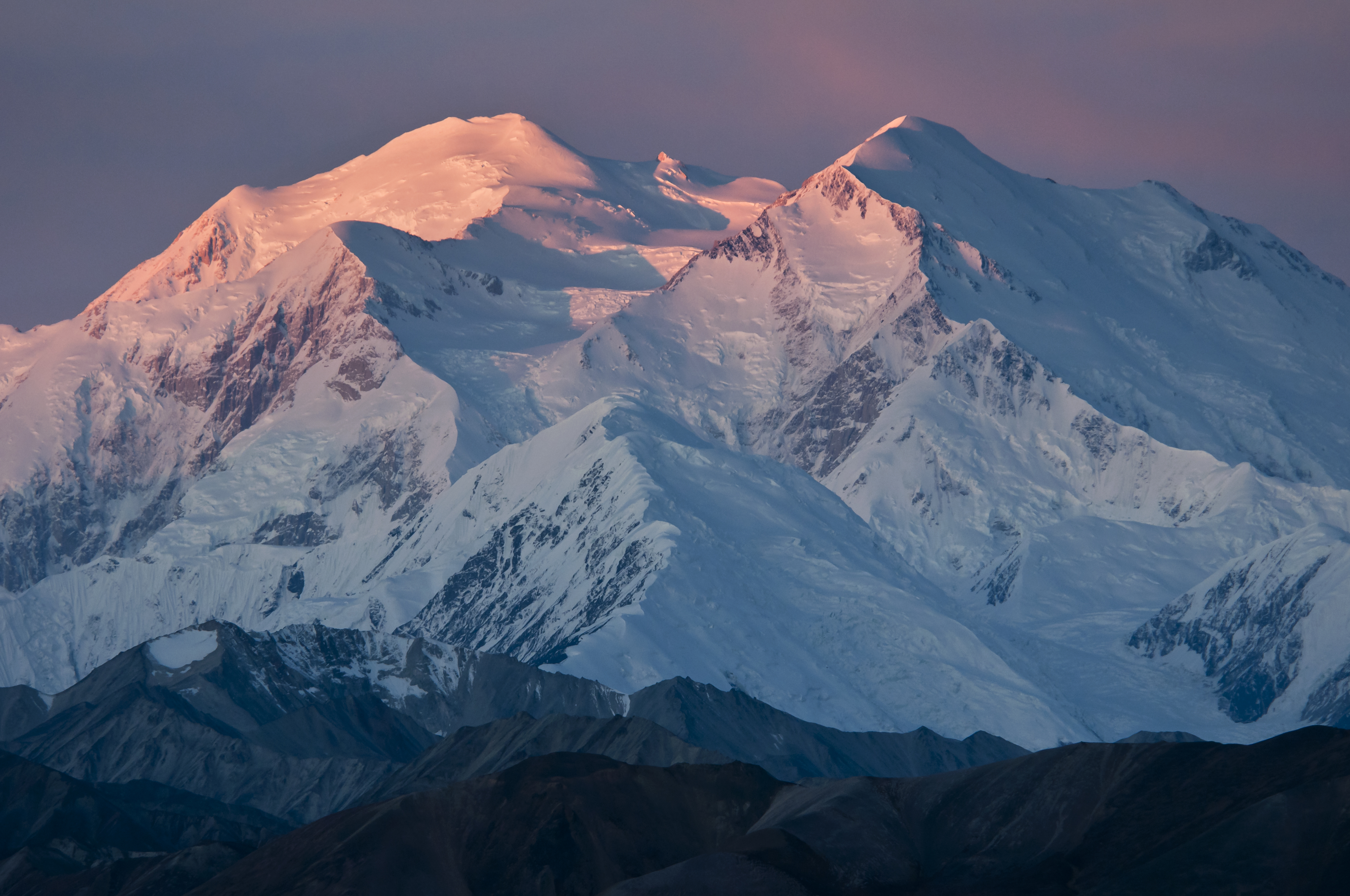 (NPS Photo/ Tim Rains)